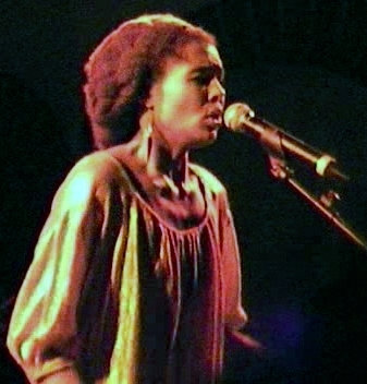 German singer Ayọ during her Berlin concert at the Passionskirche.